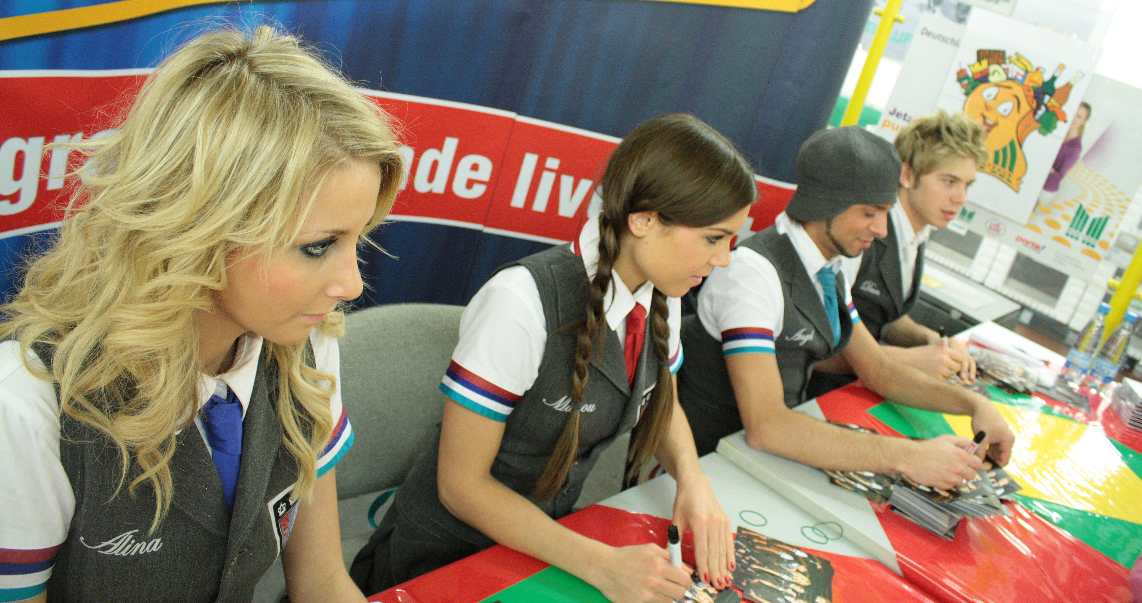 beFour: Autograph session in Hamburg-Bergedorf, 2009